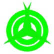 Misato town Saitama chapter